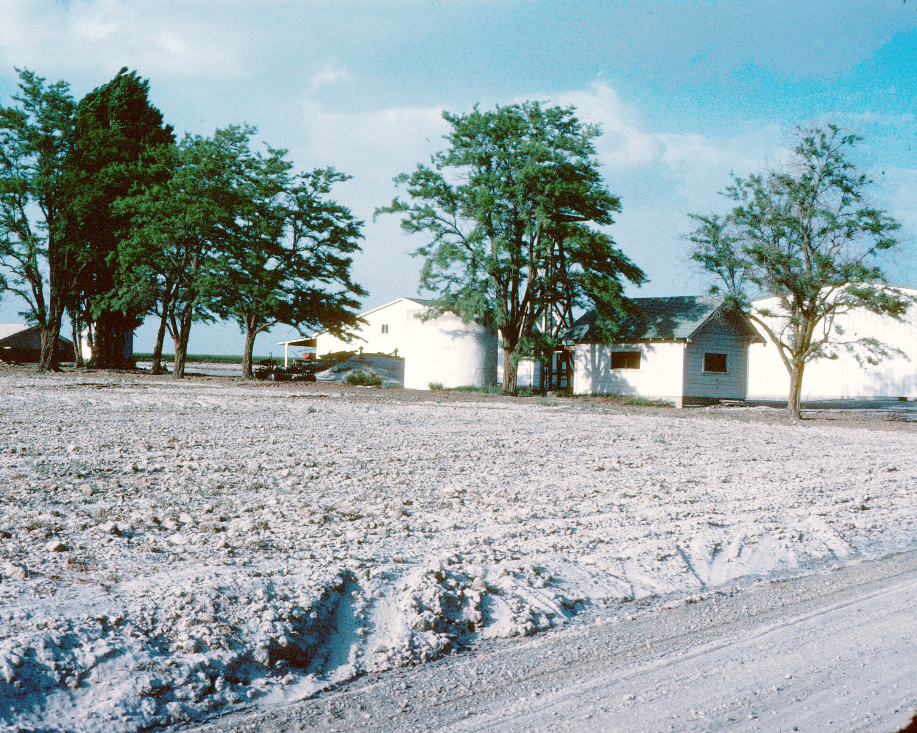 Ash from the May 18th 1980 eruption of the Mount St. Helens piling up in Connell, Washington.